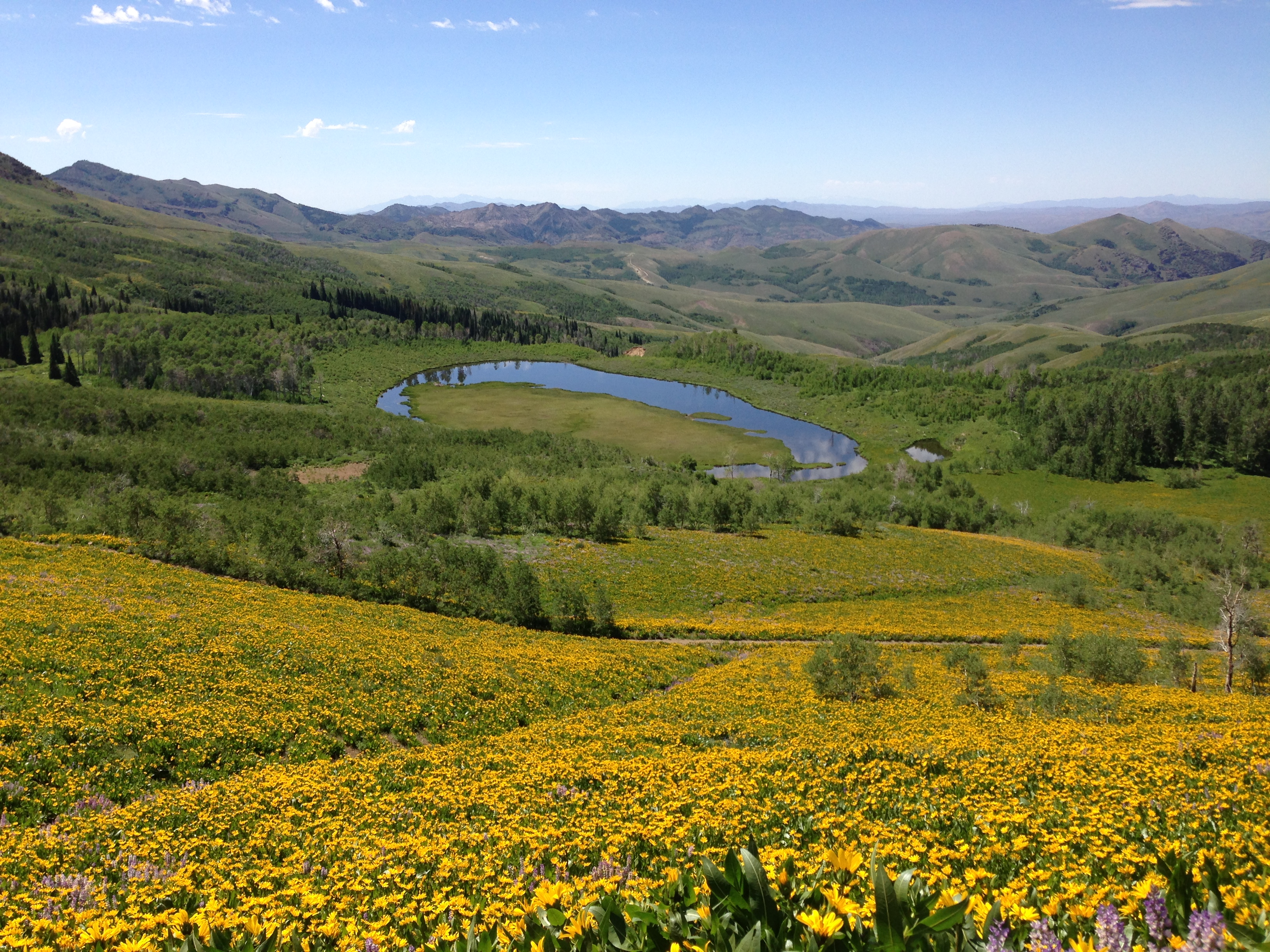 Ponds and wildflowers in Copper Basin, Nevada near Coon Creek Summit